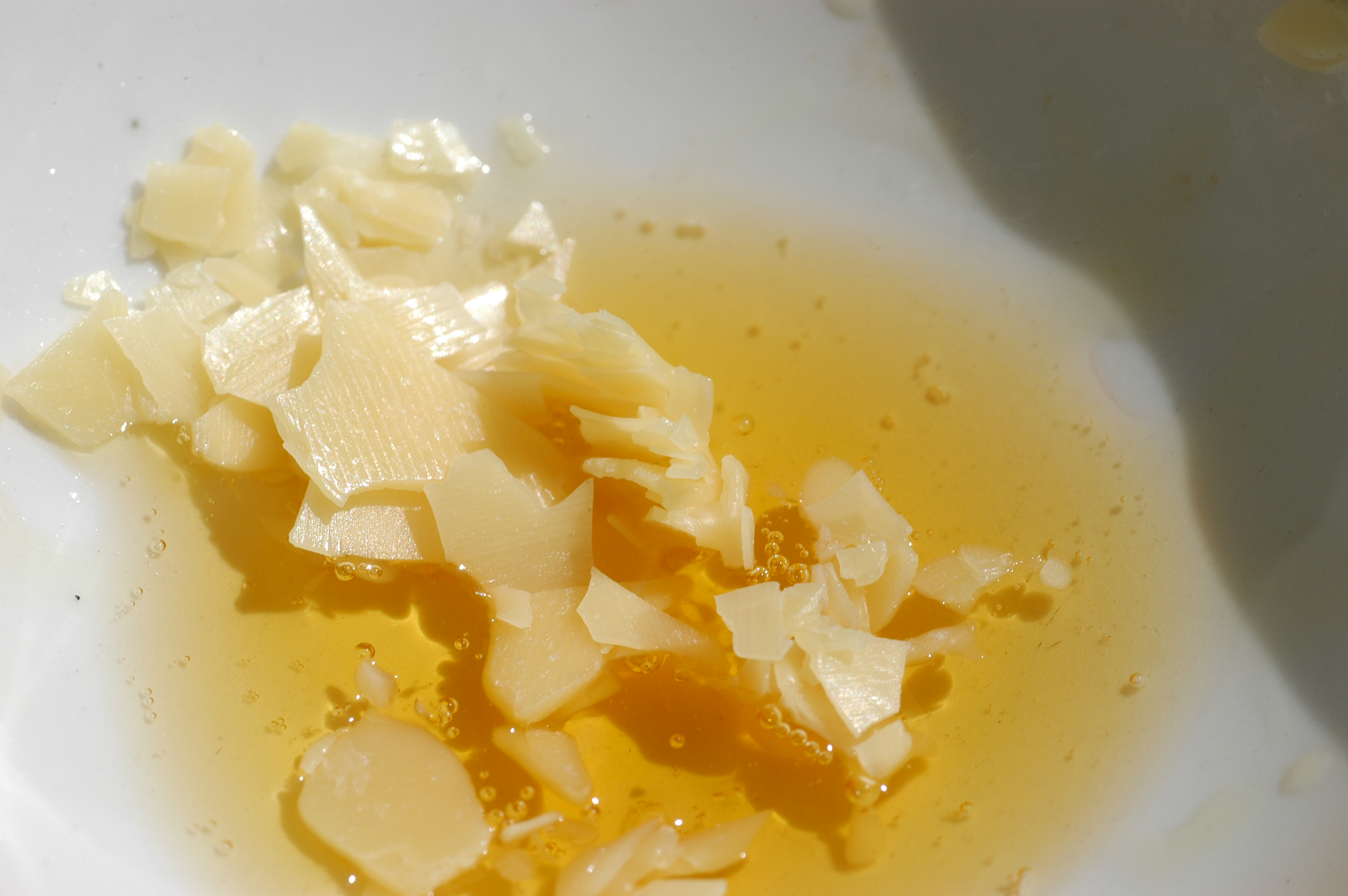 Carnauba wax, molten